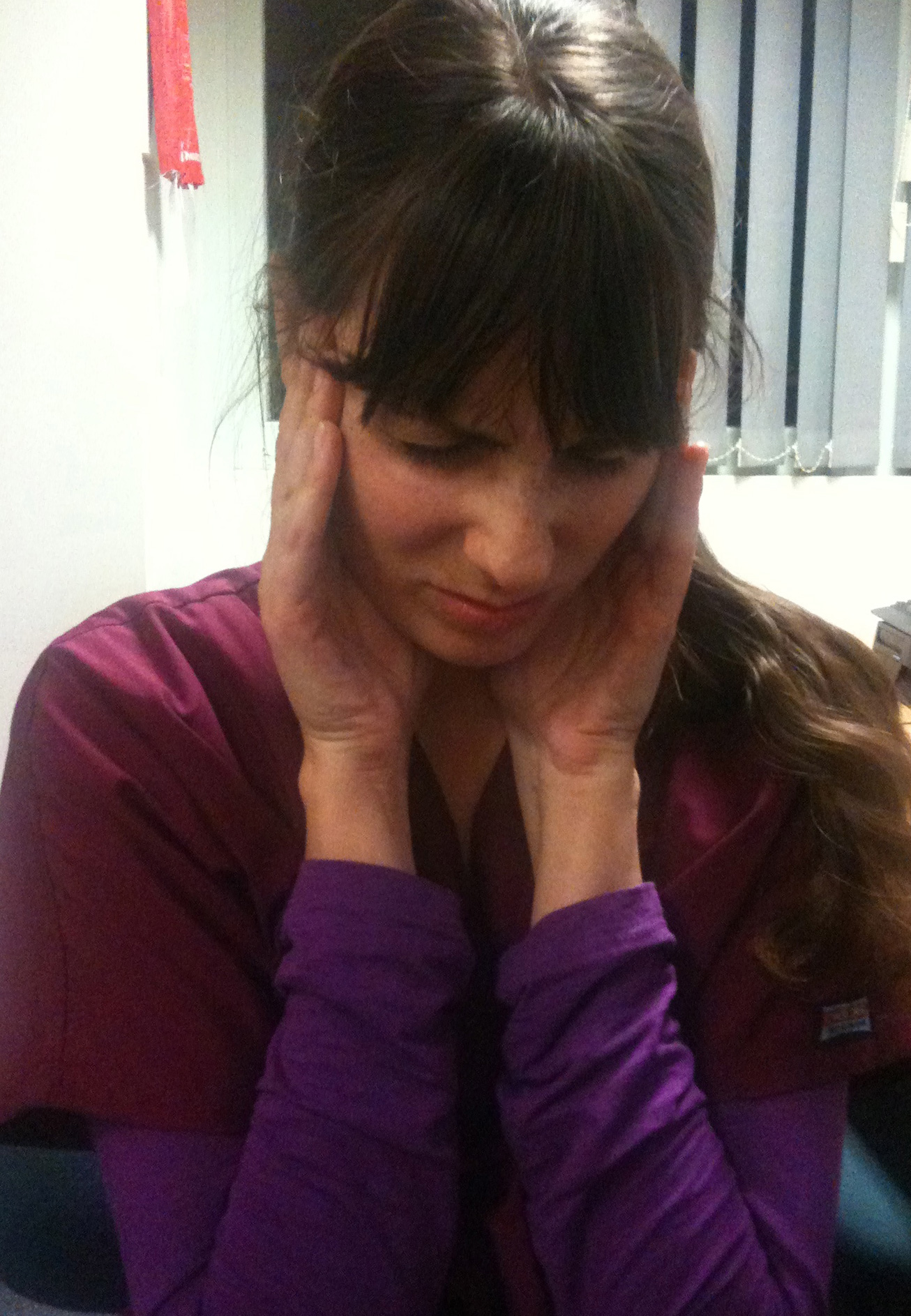 Tension headache in this patient took 3 weeks to clear up. Headaches of this kind can be aggravated by TMJ disorders and care must be taken to resolve any TMJ issues by a dentist who cares. It is helpful when treating patients that they declare any other craniofacial issues.